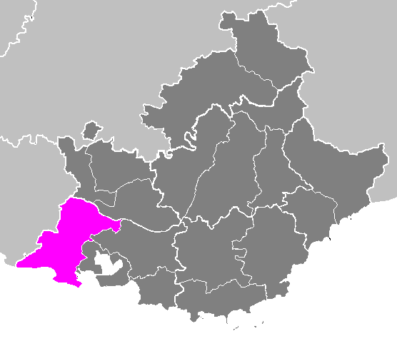 Locator map of the arrondissement of Arles (before 2018) in Bouches-du-Rhône and Provence-Alpes-Côte d'Azur (France).